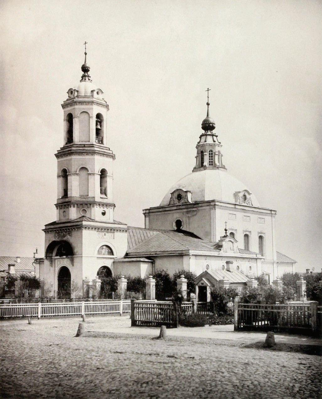 Church of St. Nicholas in Kobylskoe, Moscow.